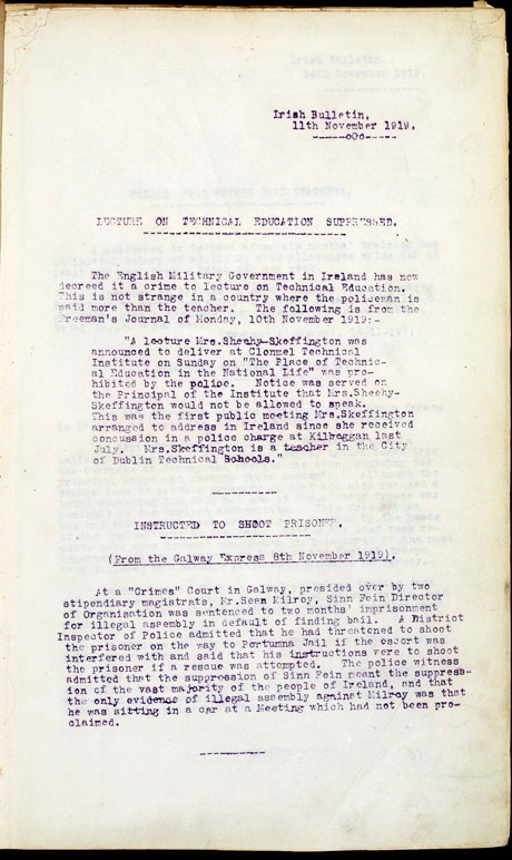 Front page of the 11th November 1919